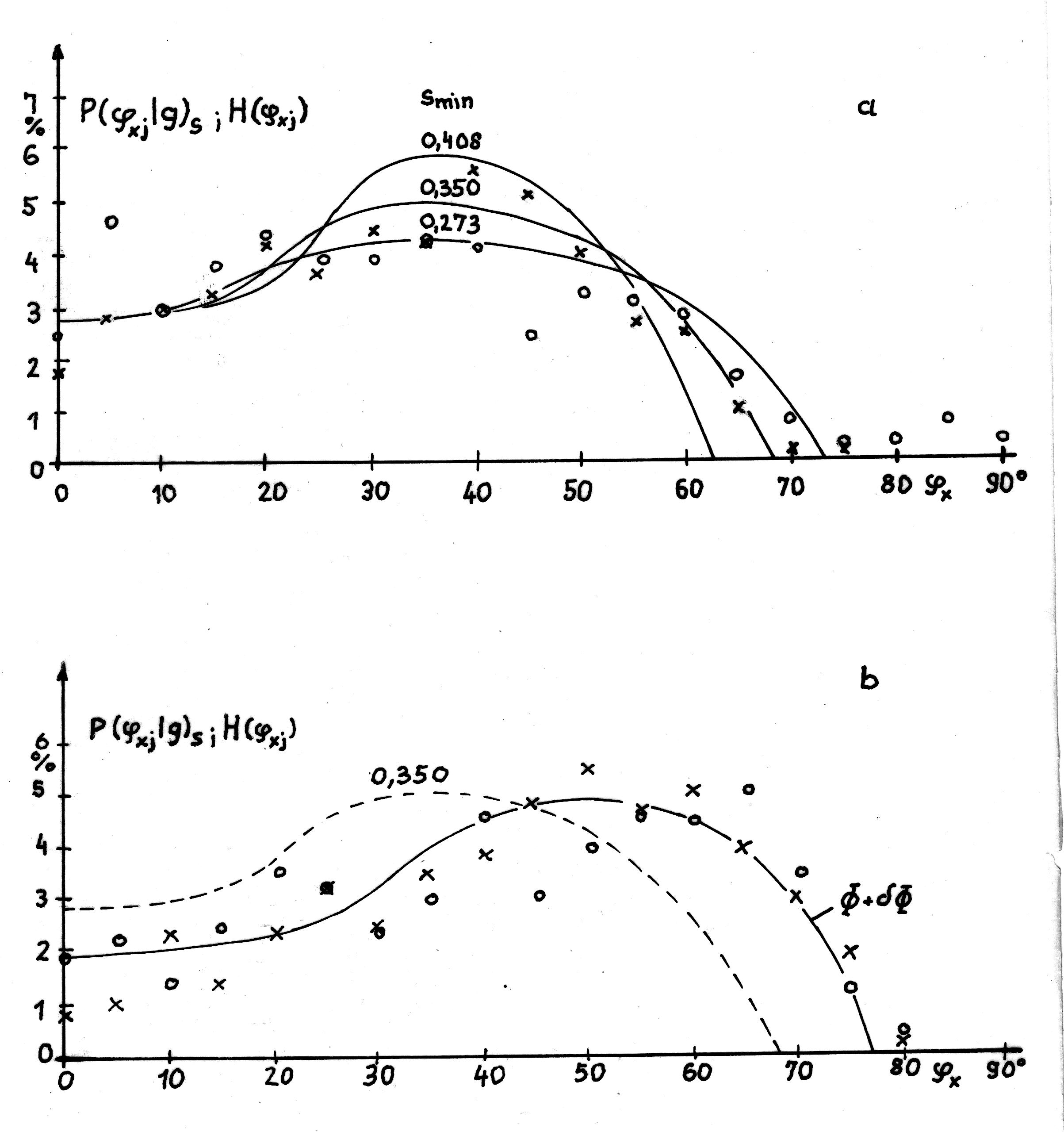 Comparision of the calculated probability distribution with experimental distributions of glide trace aztimutes for two cases of pulsing tension of austenitic steel specimens (5 cycles) by different load mayima: a) 433 Mpa; b) 561 Mpa. Circles and crosses indicate two independent measurements at the same specimens.